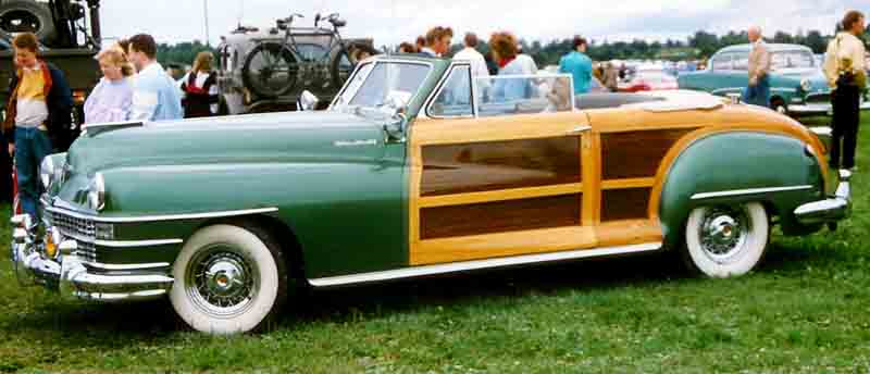 1948 Chrysler Windsor (C38W) Town & Country Convertible Coupé